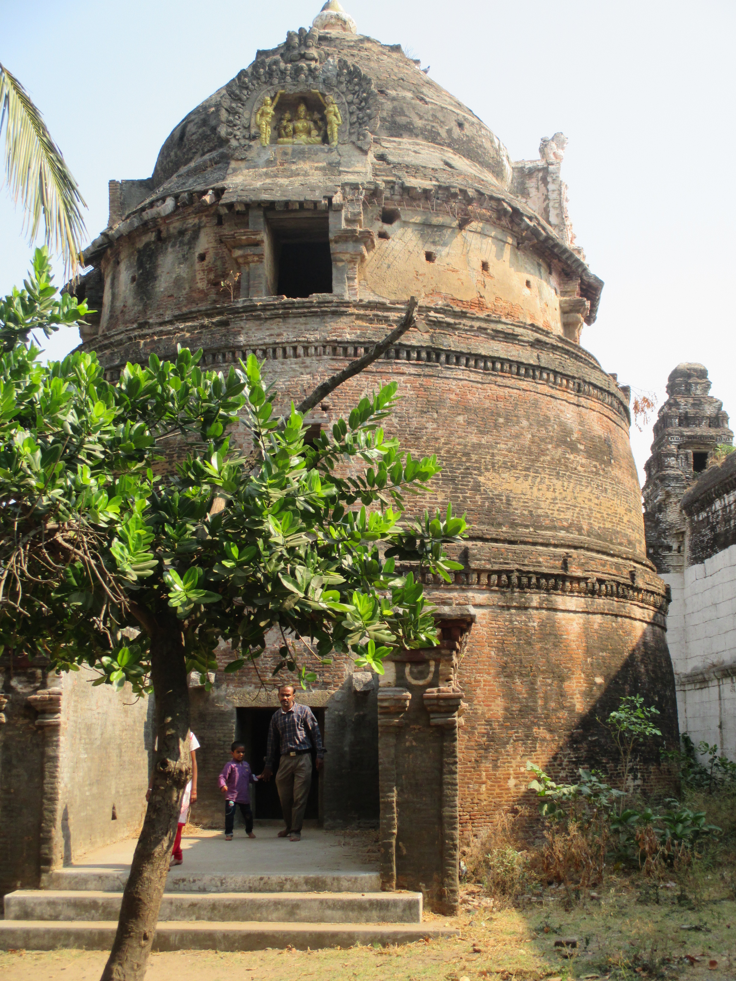 Adhirangam Ranganathaswamy temple